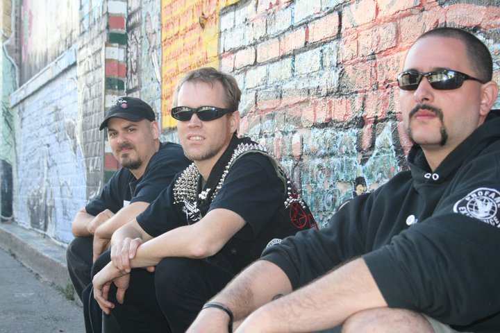 The Mississippi RocknRoll band, The Cooters, in San Francisco, California, 2008. Left to Right: Gentry Webb (guitar), Newt Rayburn (bass and vocals), Mikey Namorato (drums).